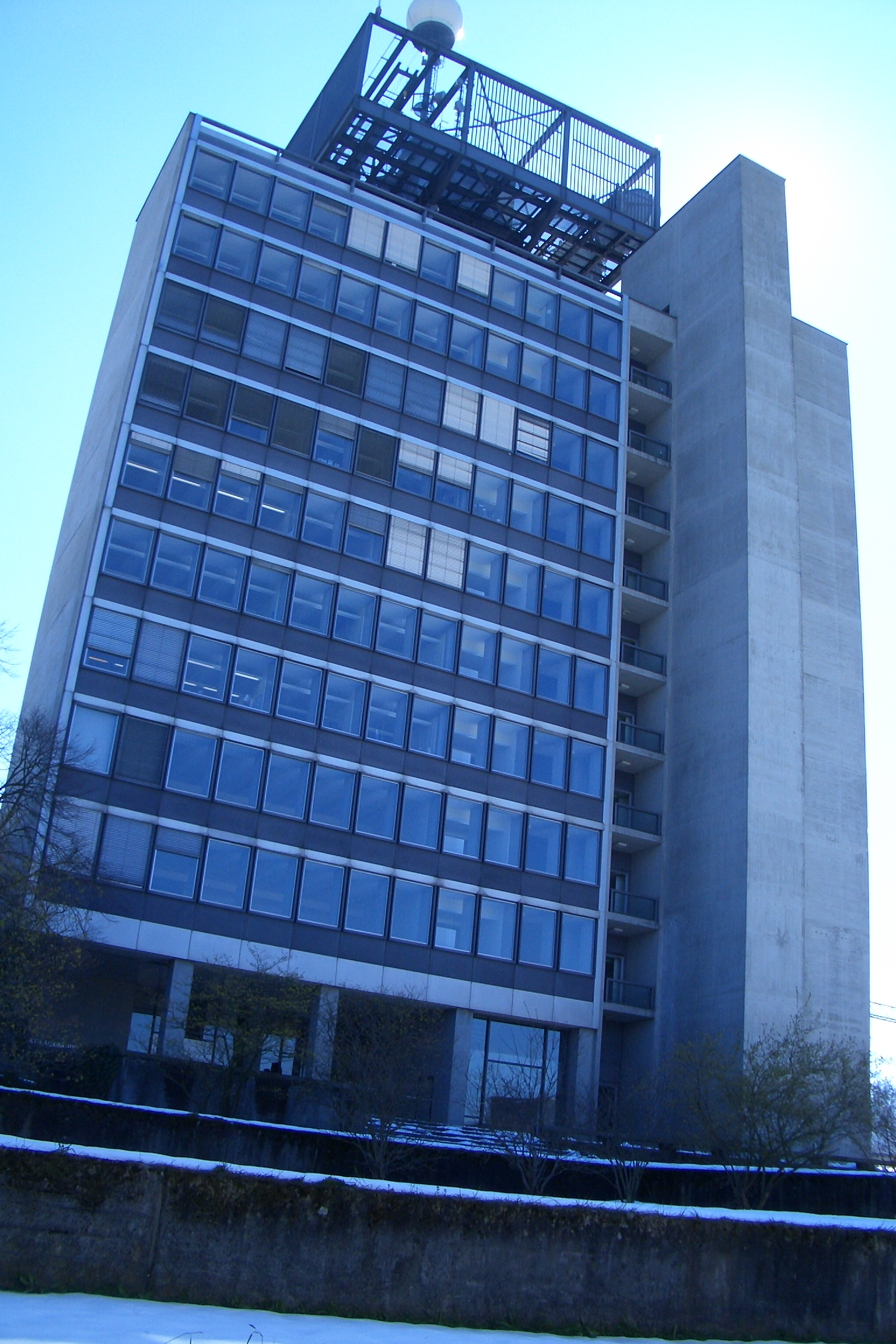 HPP Building of the ETHZ Hönggerberg